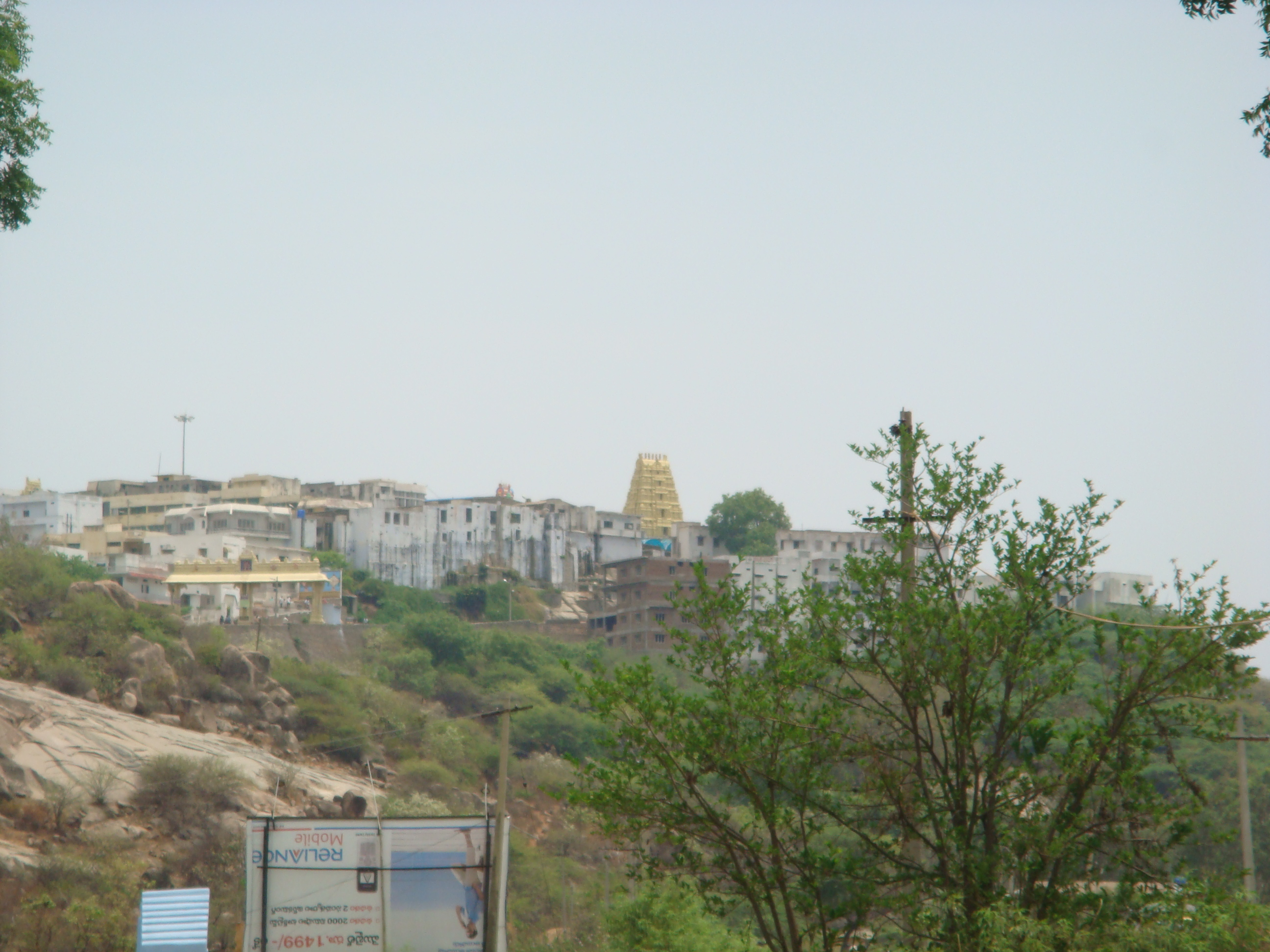 Sri Lakshminarasimha Swamy Temple or Yadagirigutta is a popular Hindu Temple of Narasimha Swamy, an incarnation Lord Vishnu It is situated on a hillock in the Nalgonda district, Andhra Pradesh, India